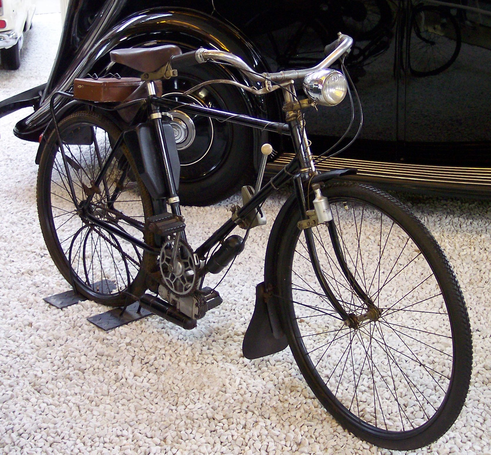 bicycle by Lohmann with auxiliary motor